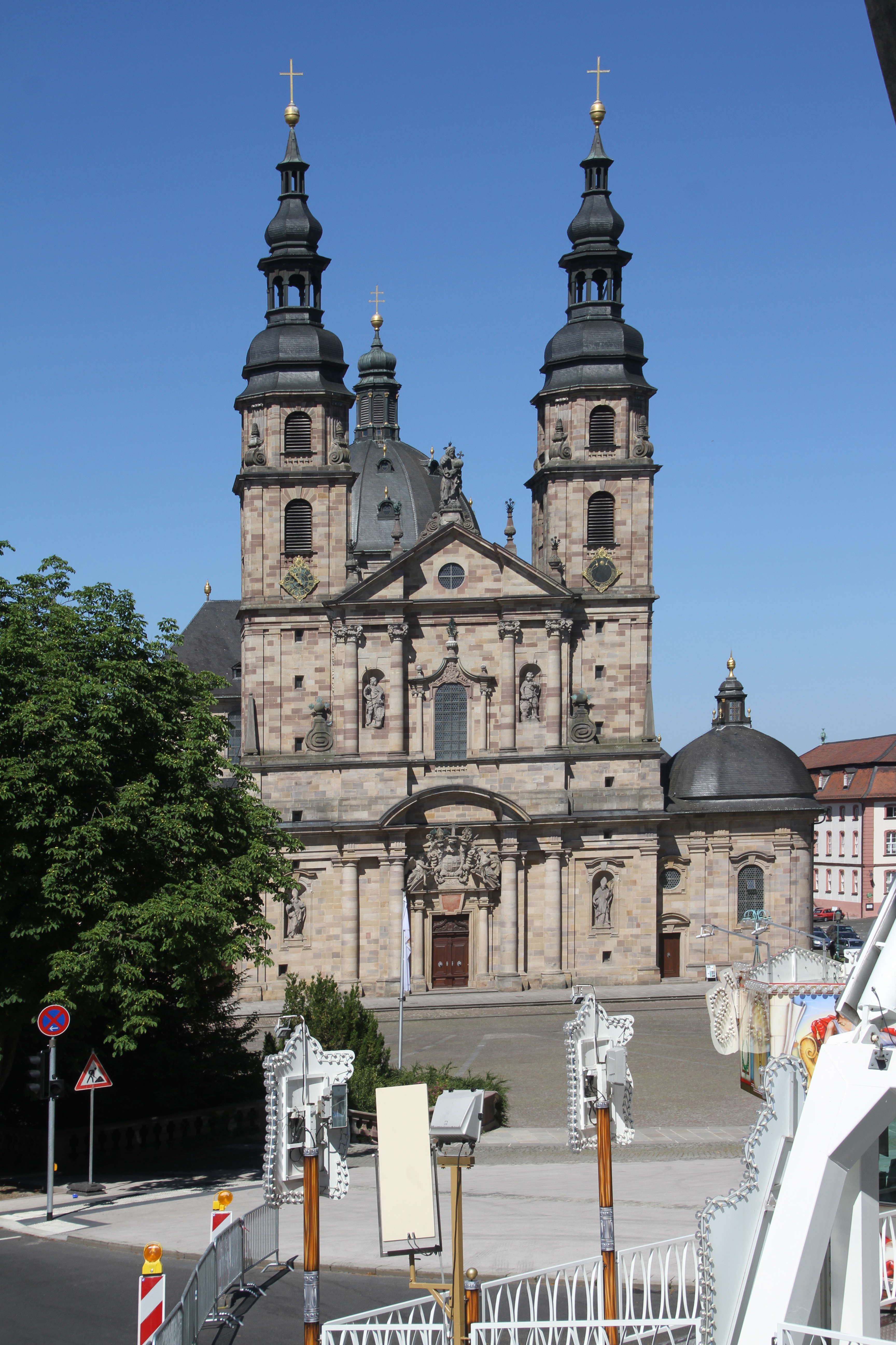 Fulda Cathedral